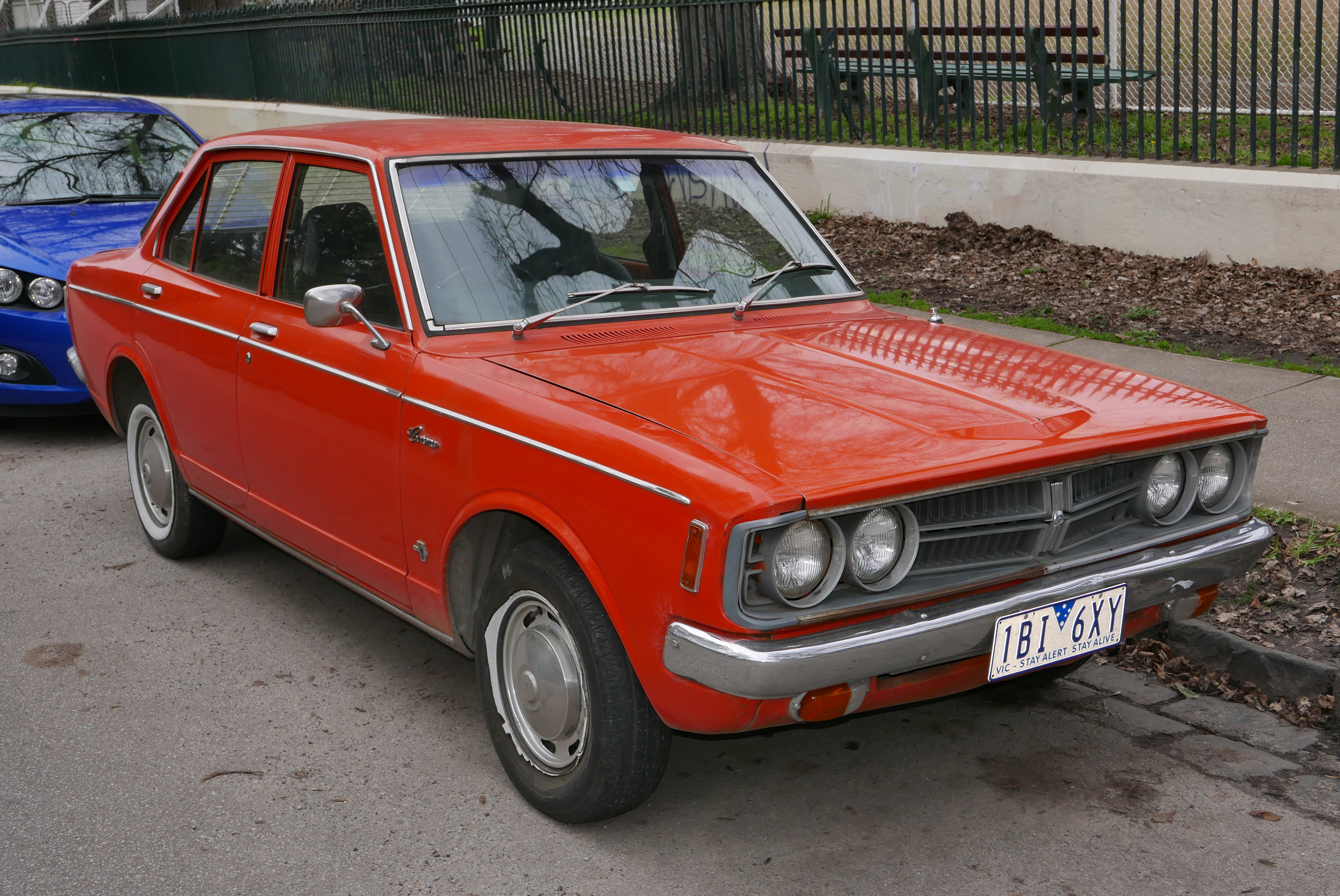 1973 Toyota Corona (RT81) SE sedan. Photographed in South Yarra, Victoria, Australia. Vehicle registration enquiry results Jurisdiction Victoria Registration 1BI6XY Chassis code RT81957002 Engine code 12R0658929 Compliance date 1973-11 Year of manufacture 1973